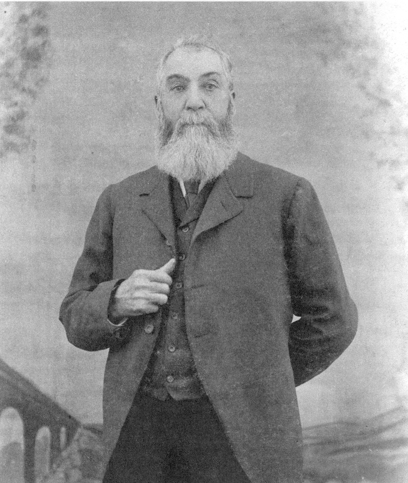 James G.C. Blackhall (1827-1910)